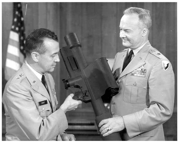 General John G. Zierdt (left), commanding general of the U.S. Army Missile Command (MICOM), examines the launcher for the FIM-43 Redeye air-defense missile in June 1964